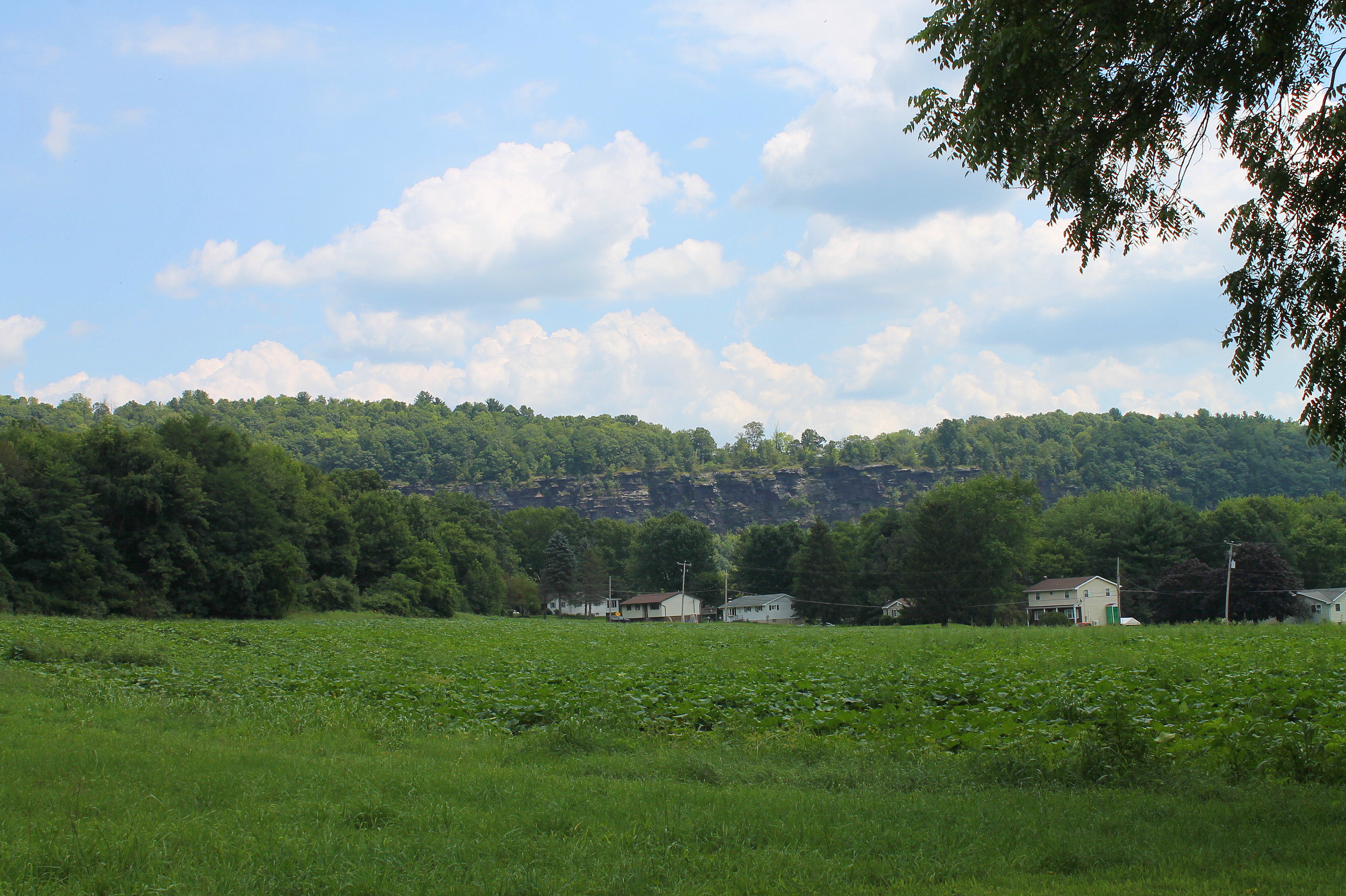 Field in Exeter Township, Wyoming County, Pennsylvania. The cliffs are across the Susquehanna River in Falls Township.